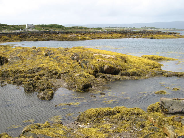 Knotted Wrack The narrow channel between Eanach Mheain and the smaller Inis Loiscthe does not quite dry out at low tide, but rock outcrops and boulders make it un-navigable. As with the most part of this sheltered, shallow bay an abundance of the Knotted Wrack (Ascophyllum nodosum) covers every inter-tidal surface. I am always impressed by the vivid yellow colour of this seaweed.